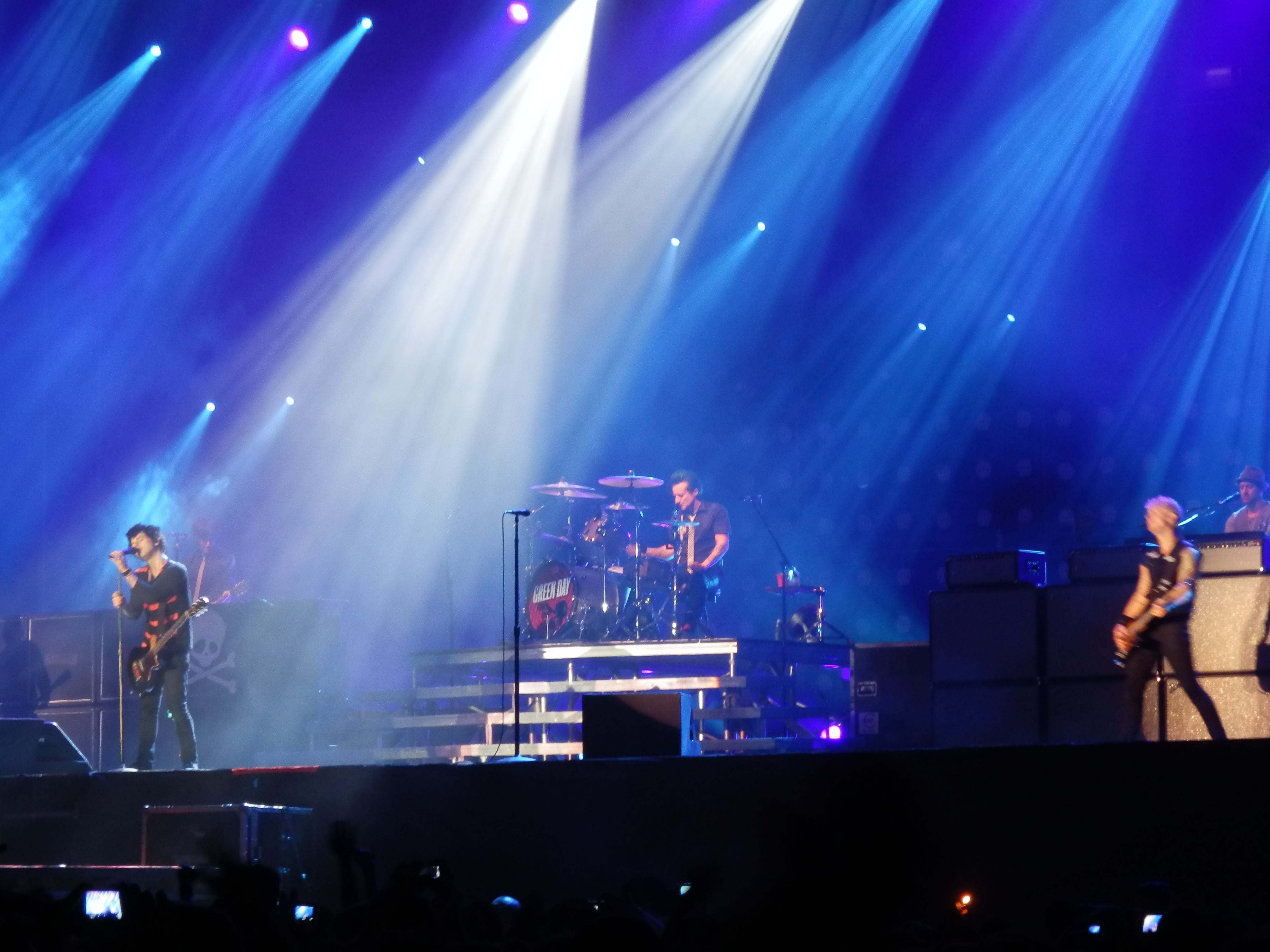 Green day Live 5 june 2013 in Rome